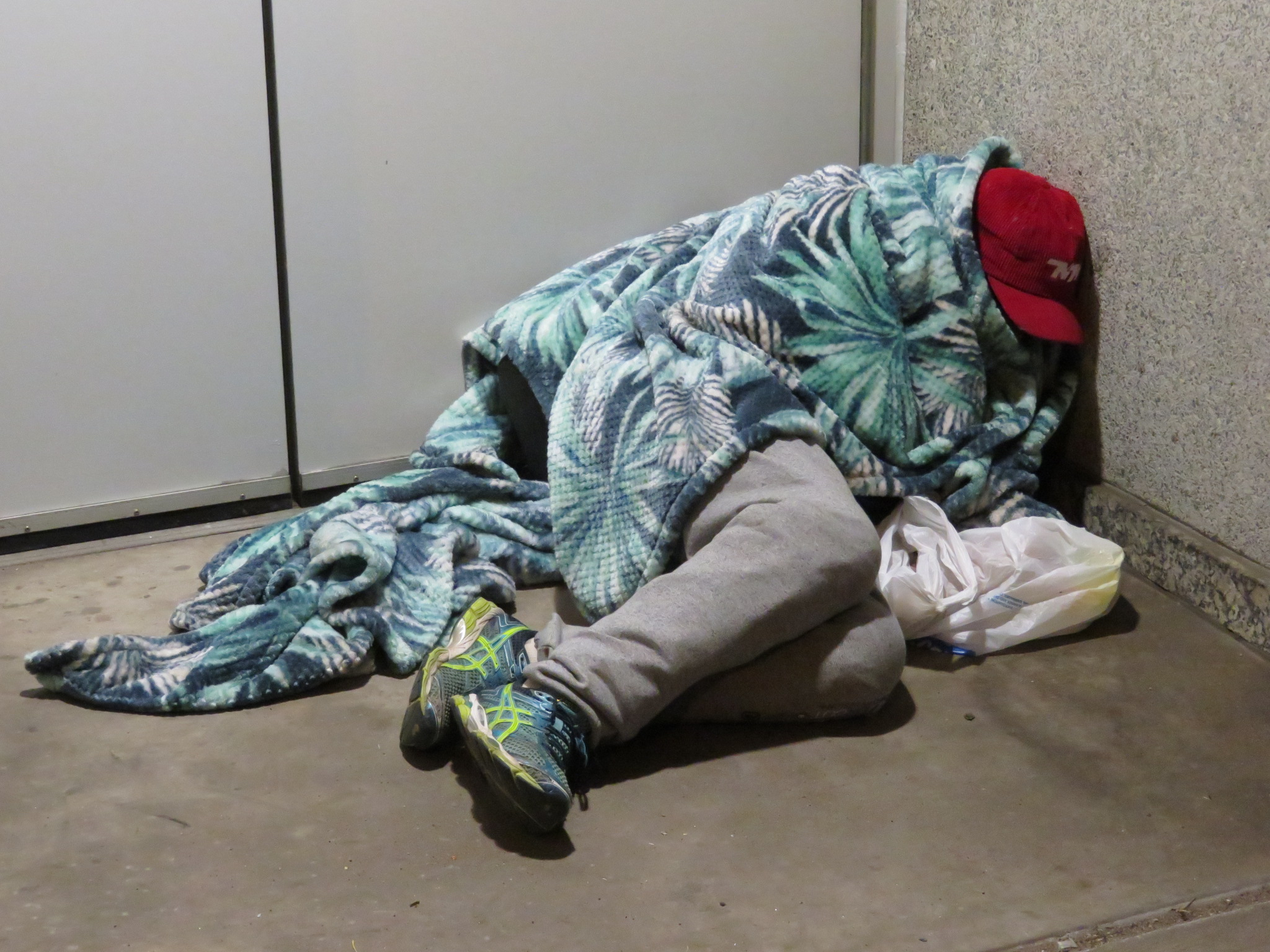 A homeless man sleeping in an alcove at the Colorado Supreme Court Building. The temperature was 3° Celcius.